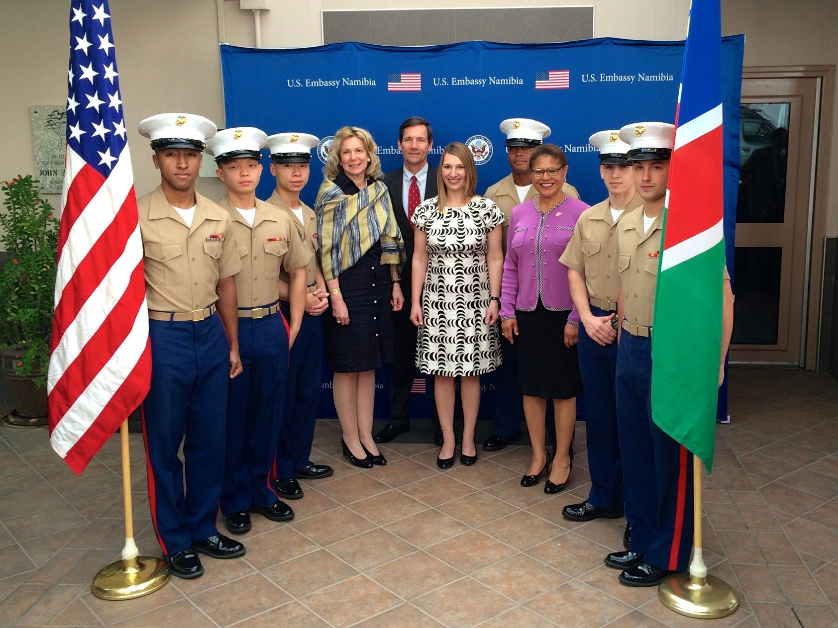 Deputy Secretary of State for Management and Resources Heather Higginbottom, U.S. Ambassador to Namibia Thomas Daughton, Ambassador Deborah Birx, U.S. Global AIDS Coordinator and U.S. Special Representative for Global Health Diplomacy, and U.S. Representative Karen Bass pose for a photo with the Marine Guards at the U.S. Embassy in Windhoek, Namibia, on March 20, 2015. [State Department photo/ Public Domain]